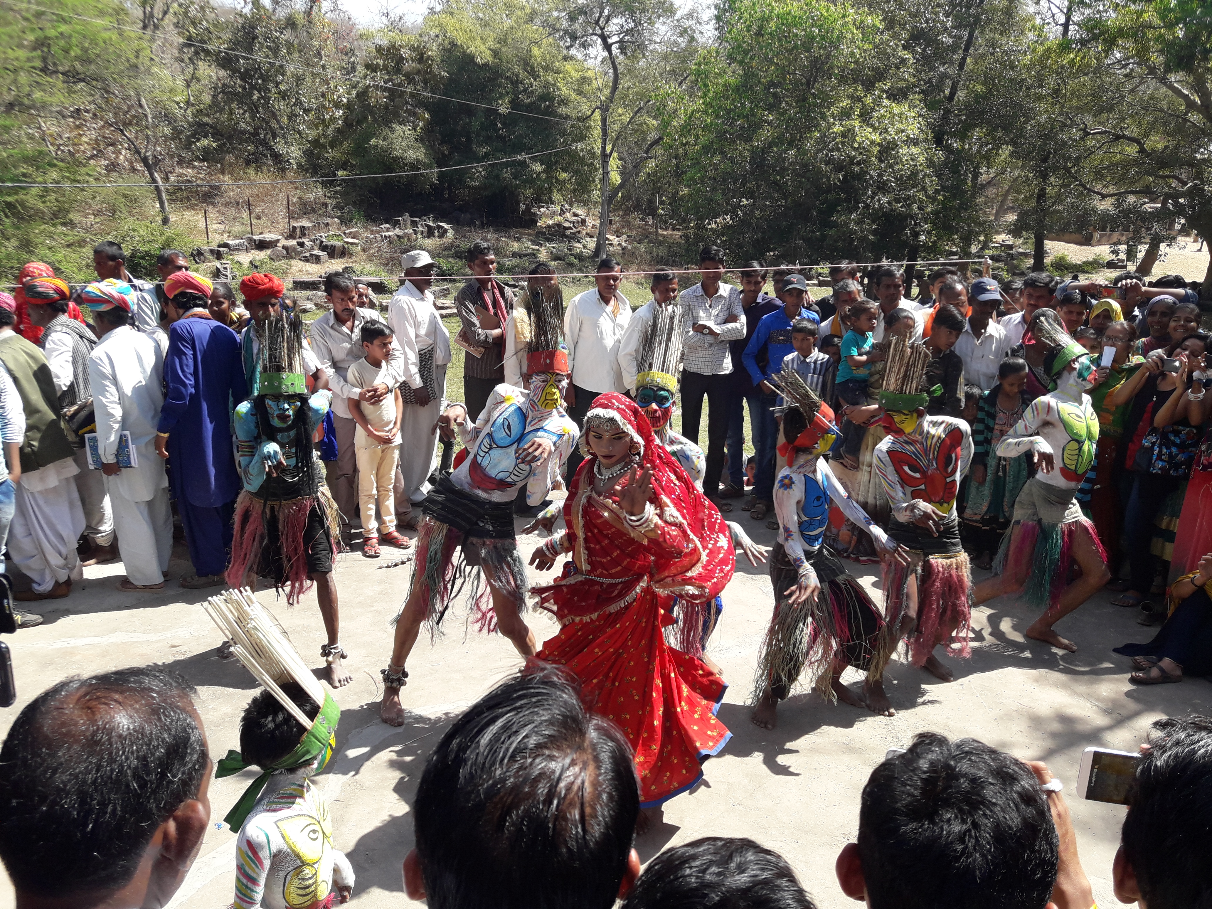 Folk dance by Saharia tribe people of Rajasthan in Kaleshwari Art Fair - 2017 held Kaleshwari Temple, near Khanpur of Mahisagar district of Gujarat, India.